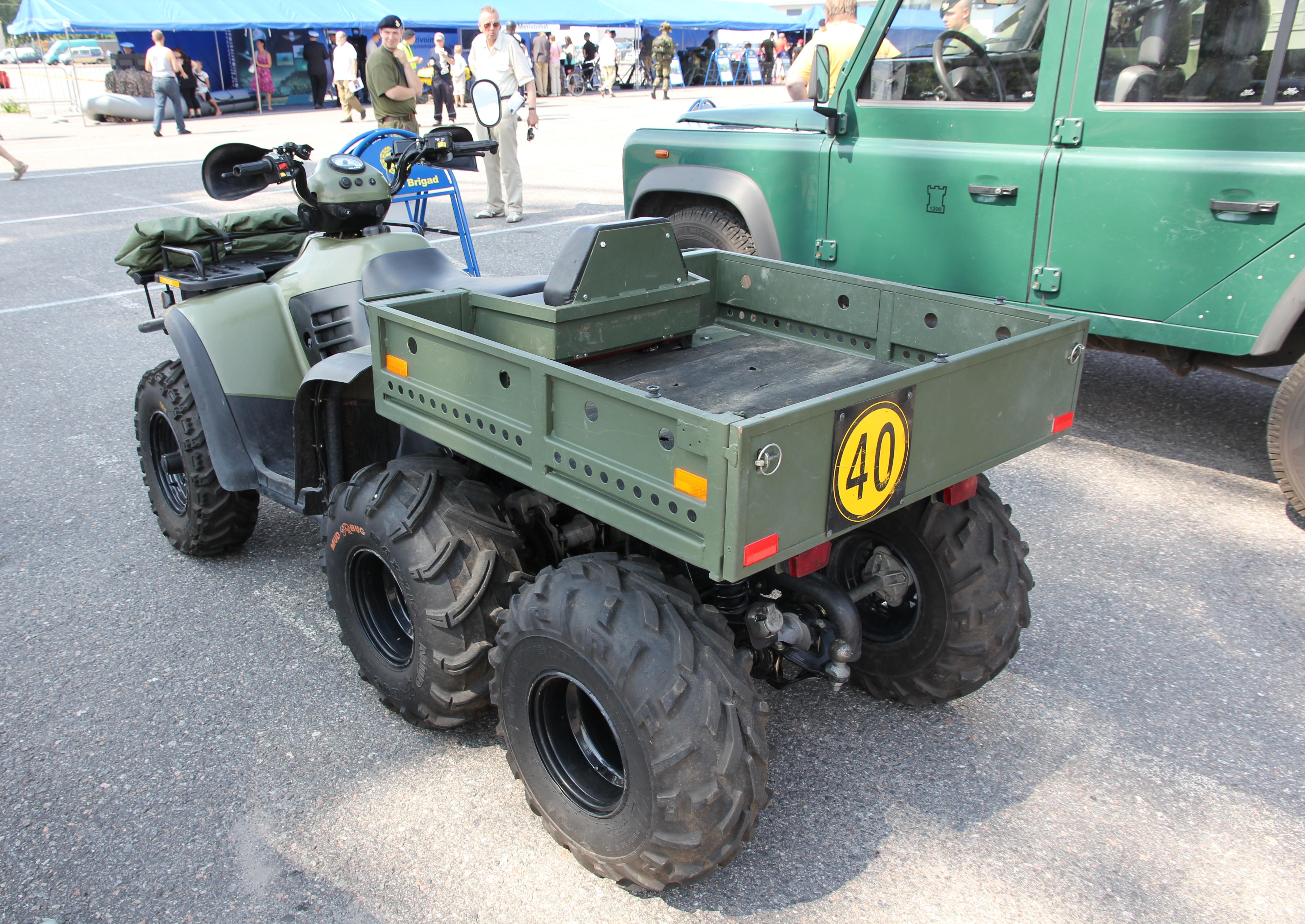 Polaris Sportsman 500 all-terrain vehicle used by Finnish military on display during Finnish Navy 2011 anniversary in Forum Marinum at Turku.